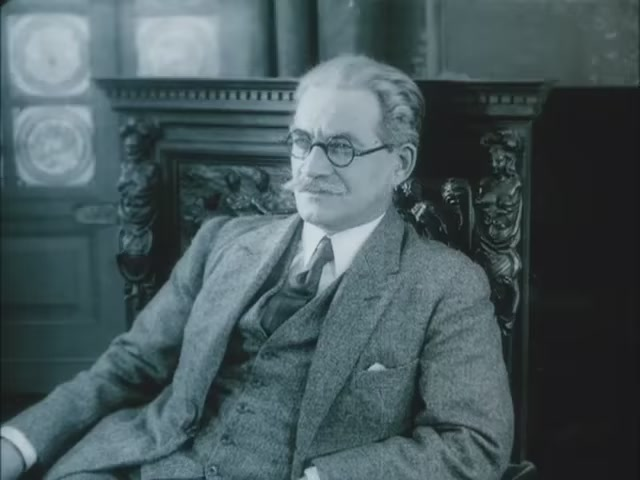 Image extracted from Le Brasier ardent, 1923 silent movie of France